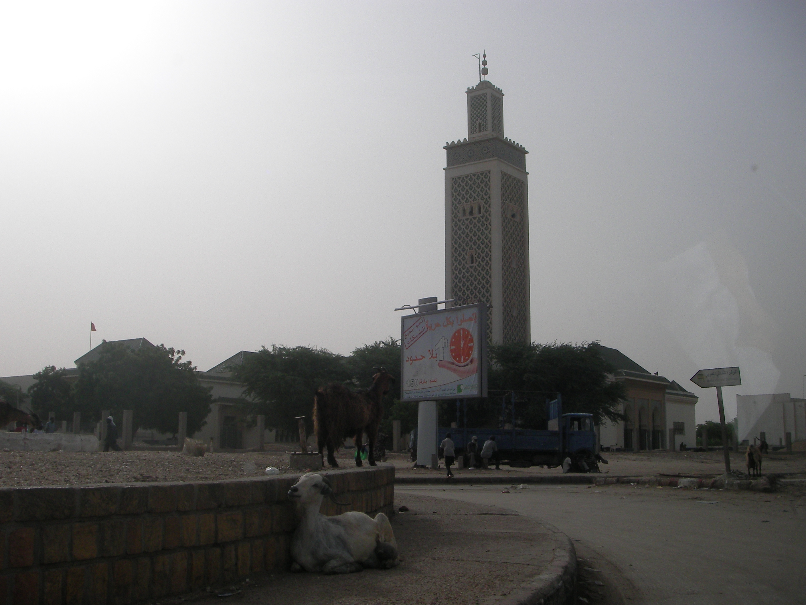 Street and the moroccan mosque in Nouakchott